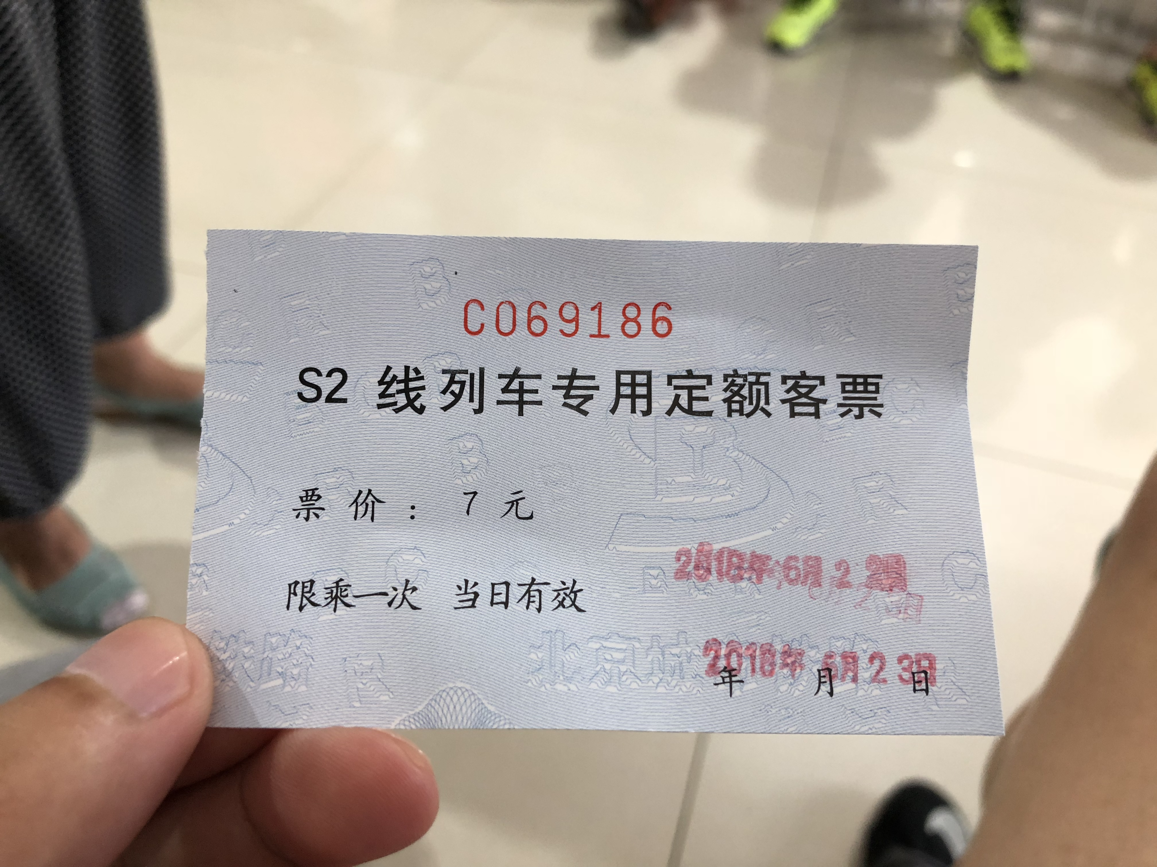 Beijing S2 Ticket at Huangtudian Railway Station